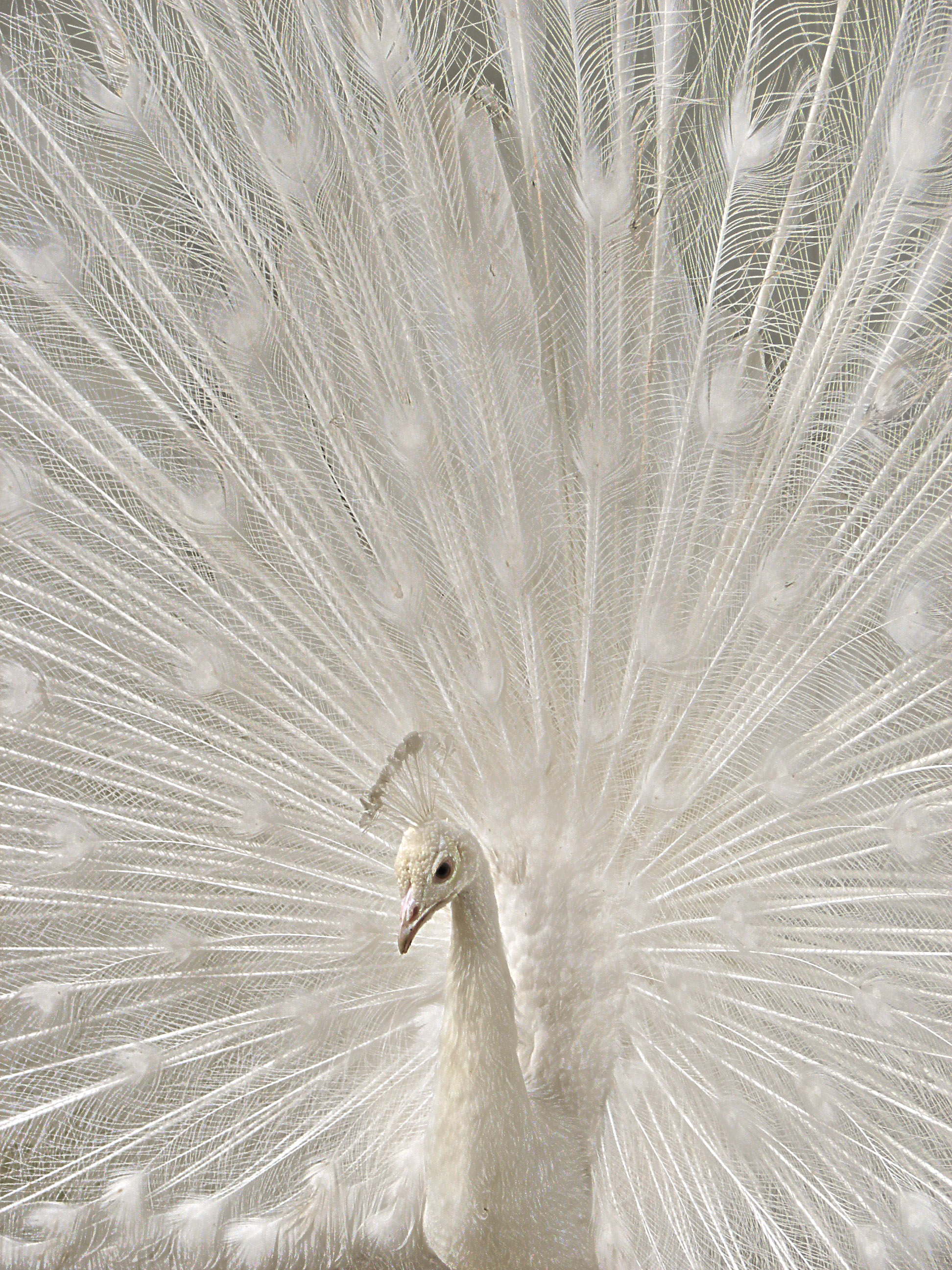 White Peacock, White Peafowl, Pavo cristatus albus